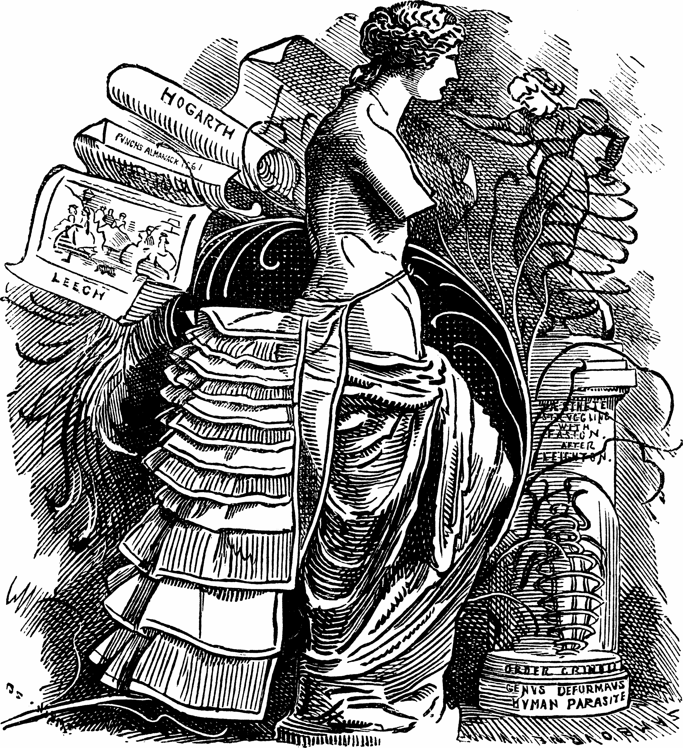 THE CRINOLETTA DISFIGURANS. An Old Parasite in a New Form.